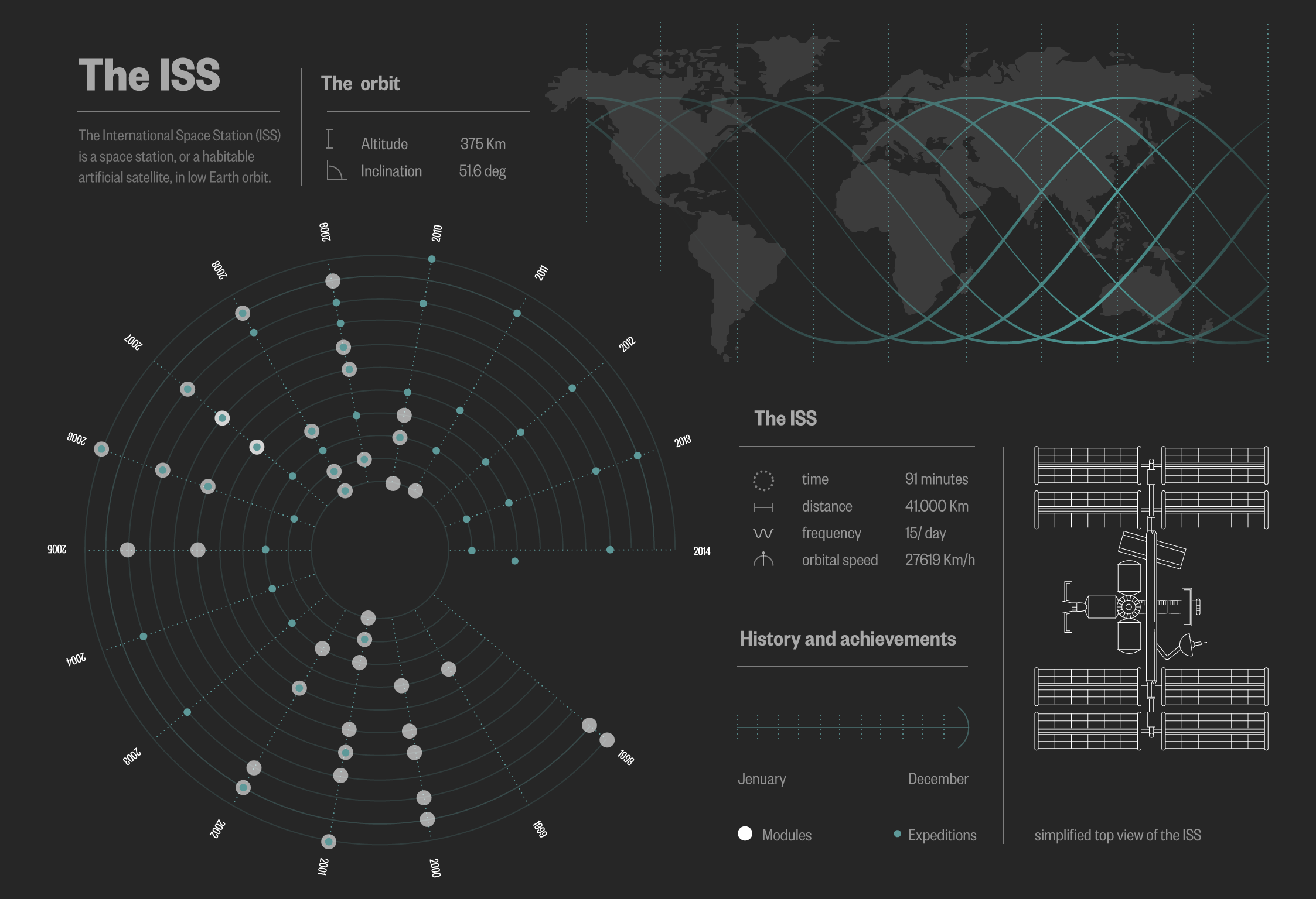 Infographic for the International Space Station, including a timeline of expeditions and module installation from 1998 to 2014. This image has been created during "DensityDesign Integrated Course Final Synthesis Studio" at Polytechnic University of Milan, organized by DensityDesign Research Lab.